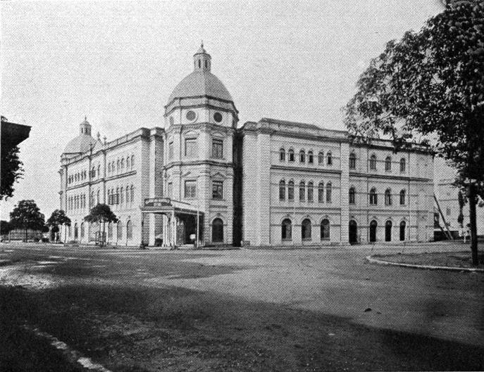 Accountant General's Office, Rangoon